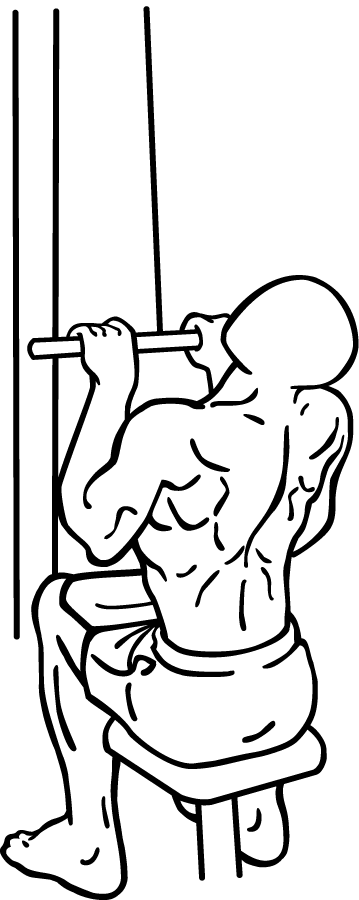 an exercise of upper back and biceps